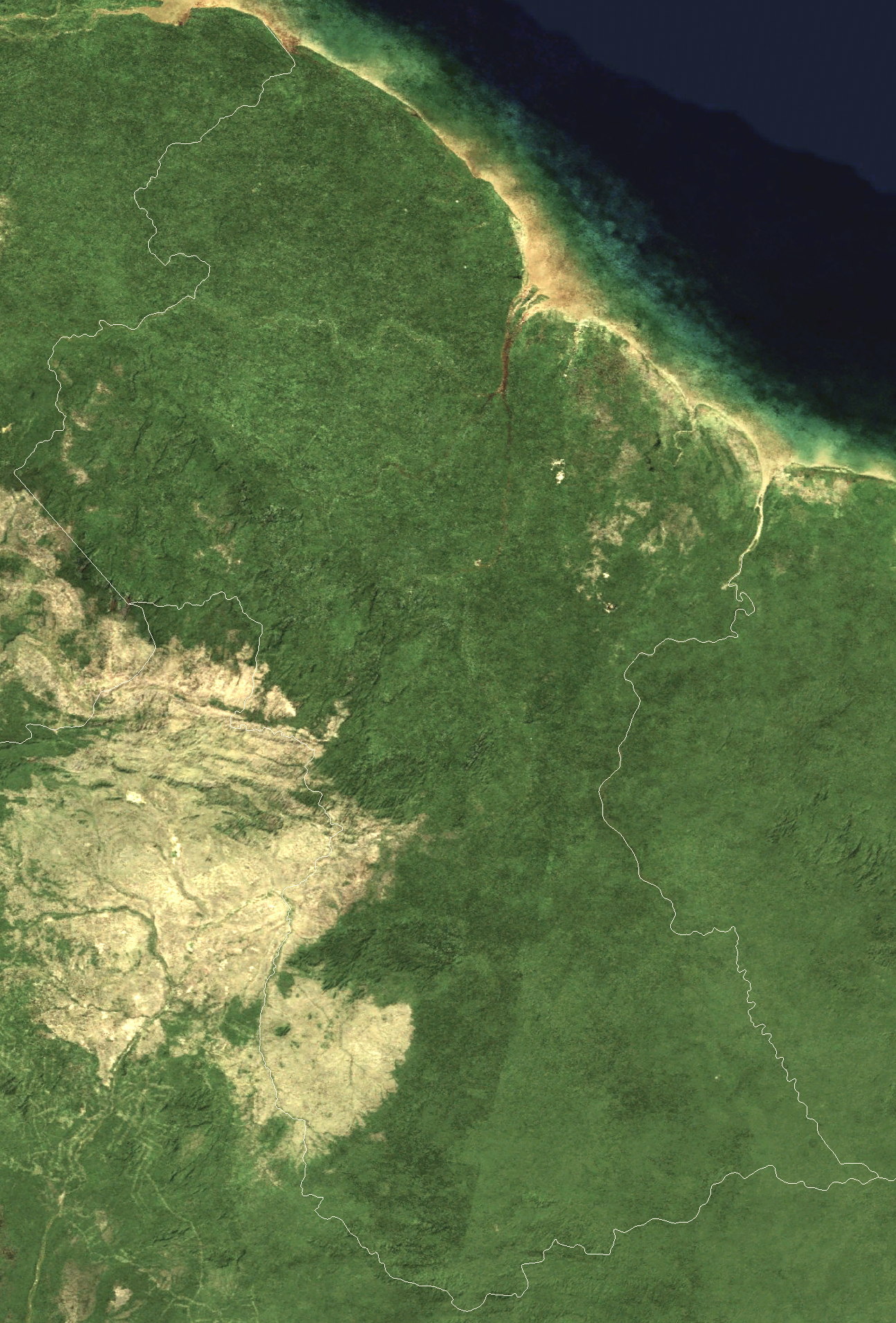 Satellite image of Guyana in November 2004. Screenshot from NASA World Wind, Blue Marble Next-Generation layer.